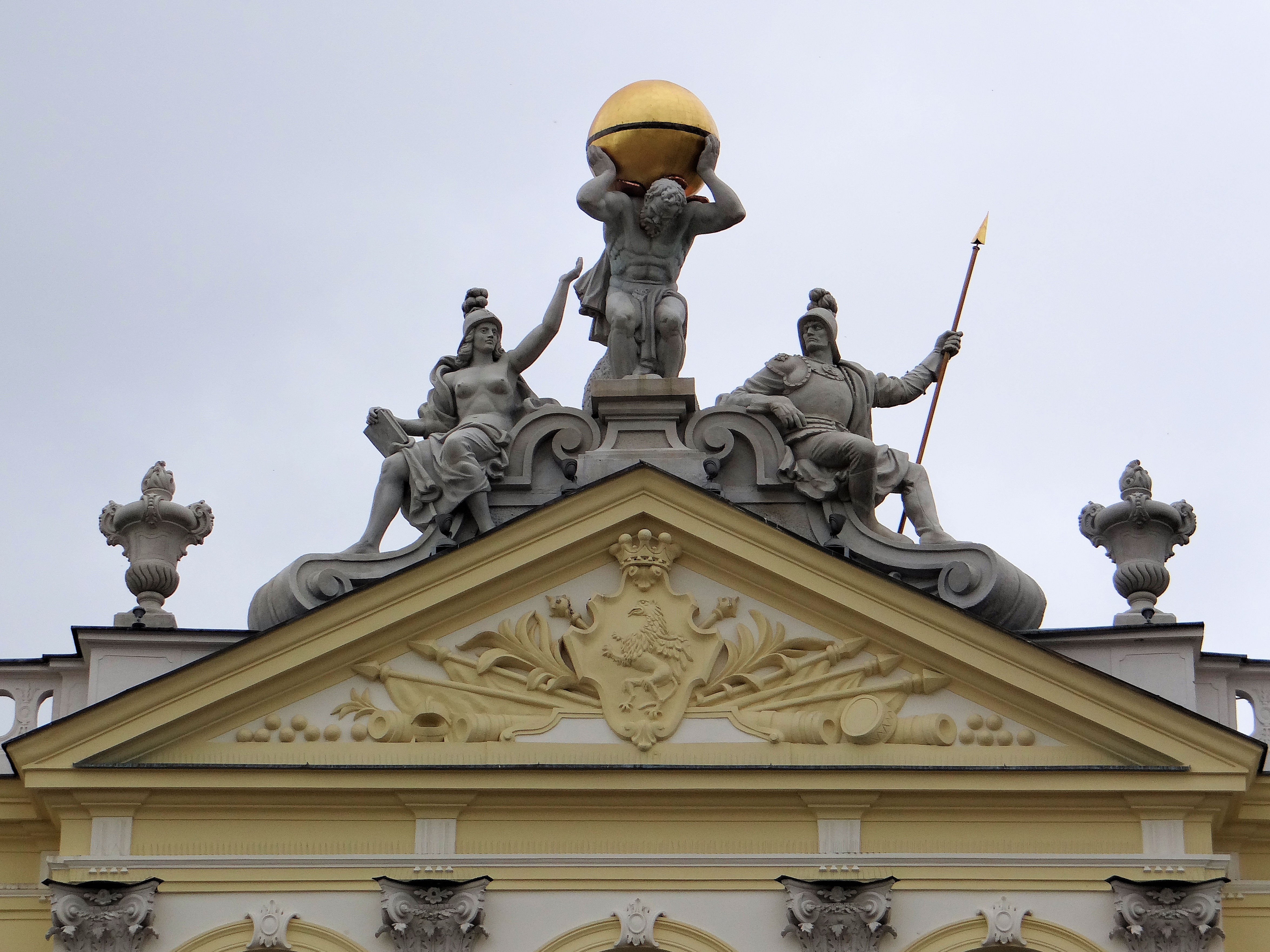 Detail of Branicki Palace in Białystok